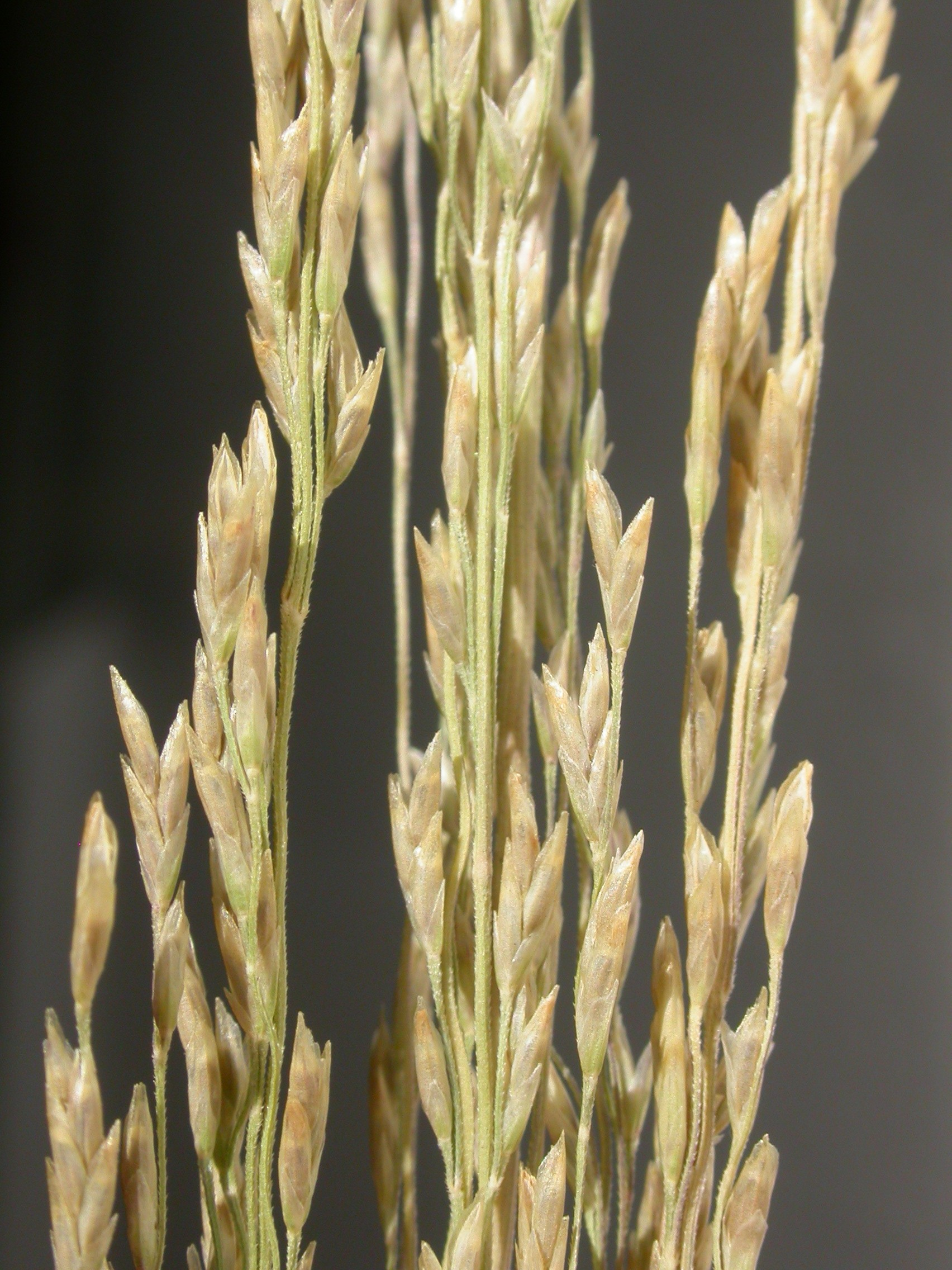 Puccinellia nuttalliana in Three Forks, Montana, USA